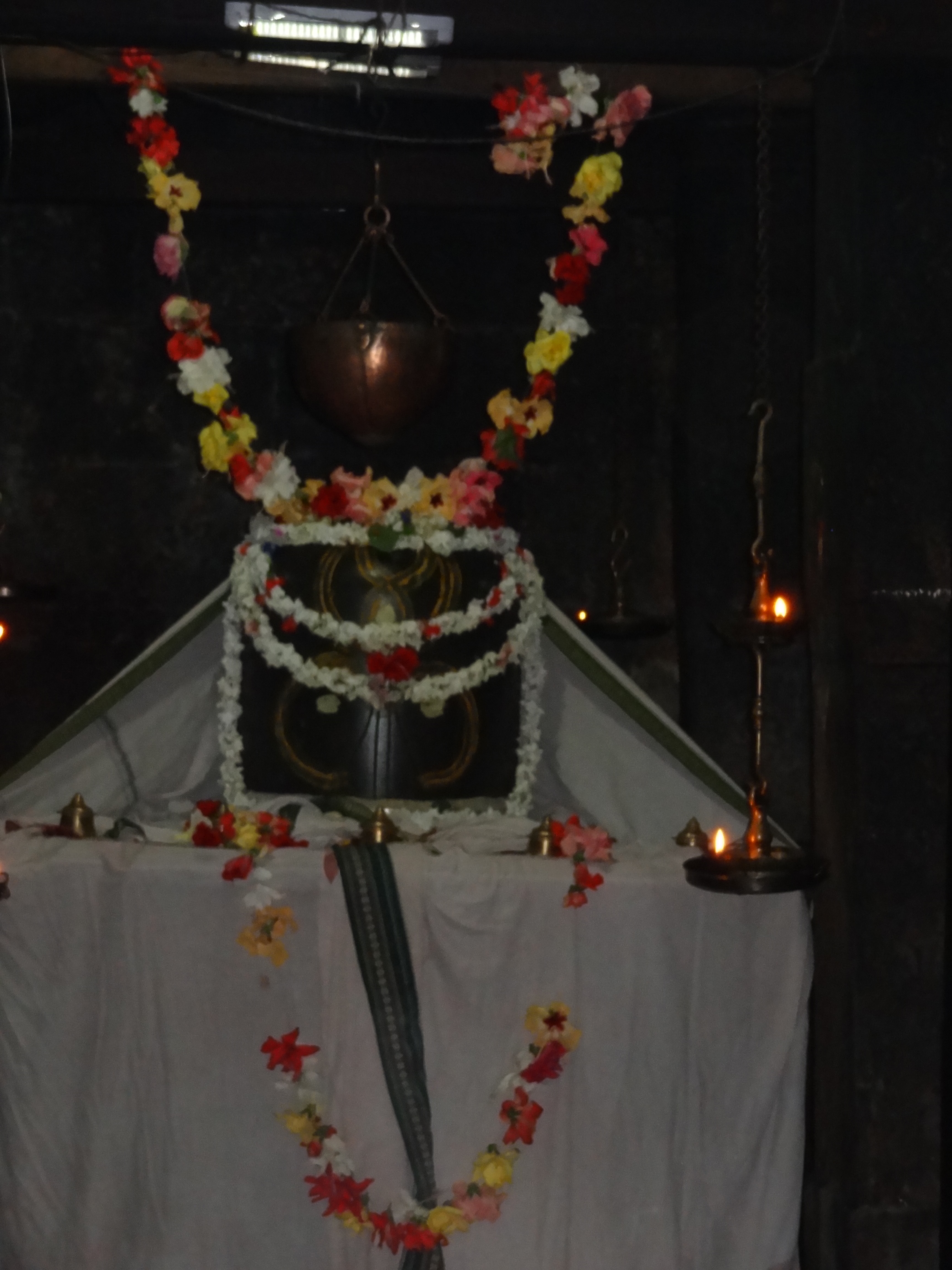 Fine temple with carvings